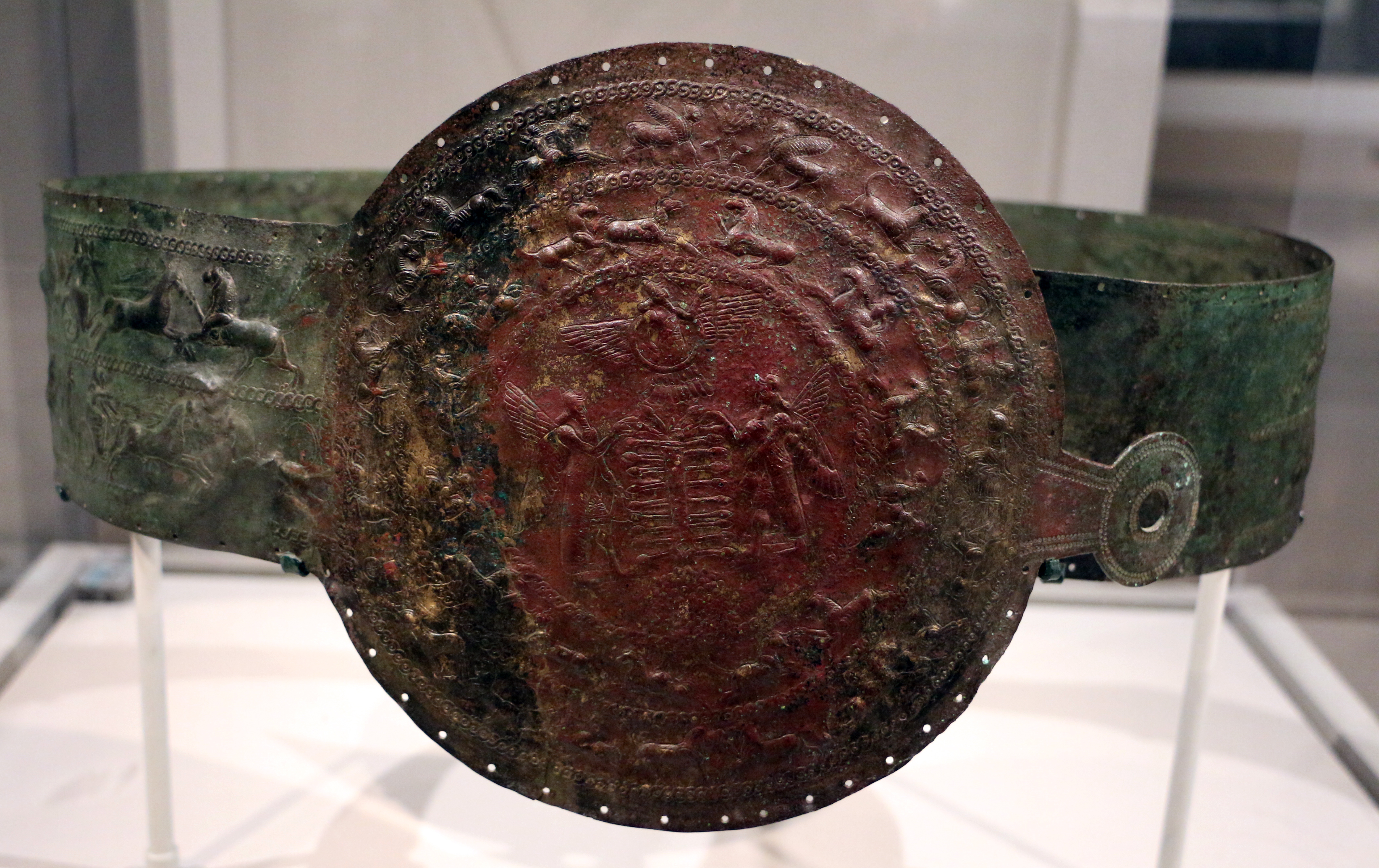 Assyrian ceremonial belt, bronze, c. 850-650 BC. Description page on the Museum site